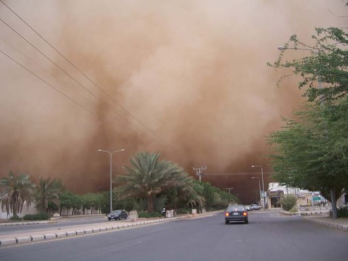 This wind describes the harsh, dry, hot Climate in Hafar Al-Batin. This type of wind is rare but it happened.